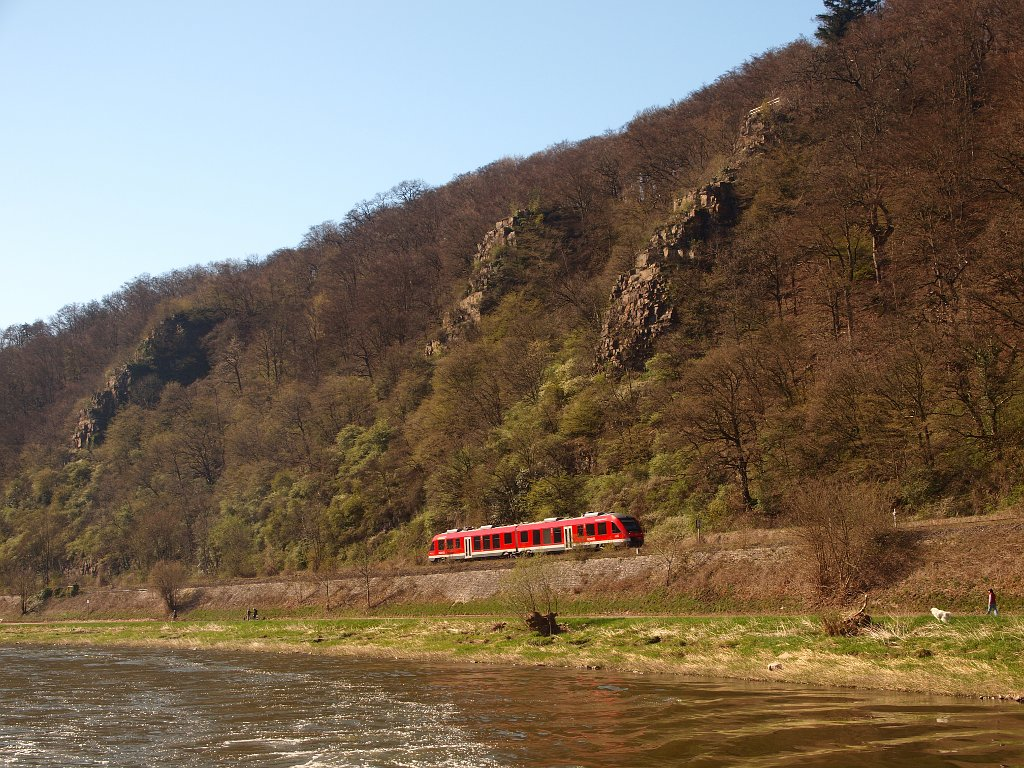 Hanoveranian Cliffs over the river Weser near Bad Karlshafen, with the railway line Sollingbahn.